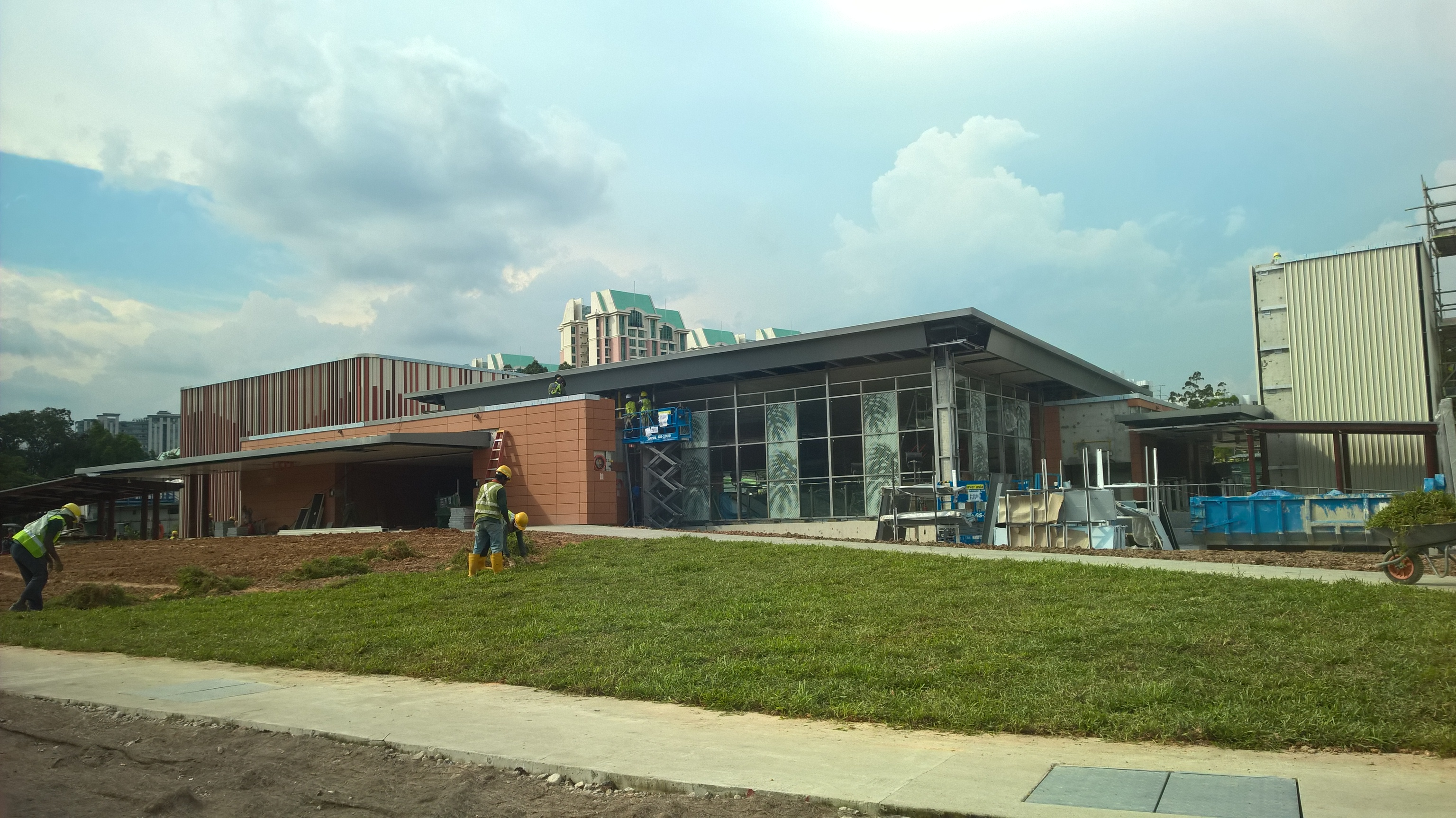 Template:GFDC